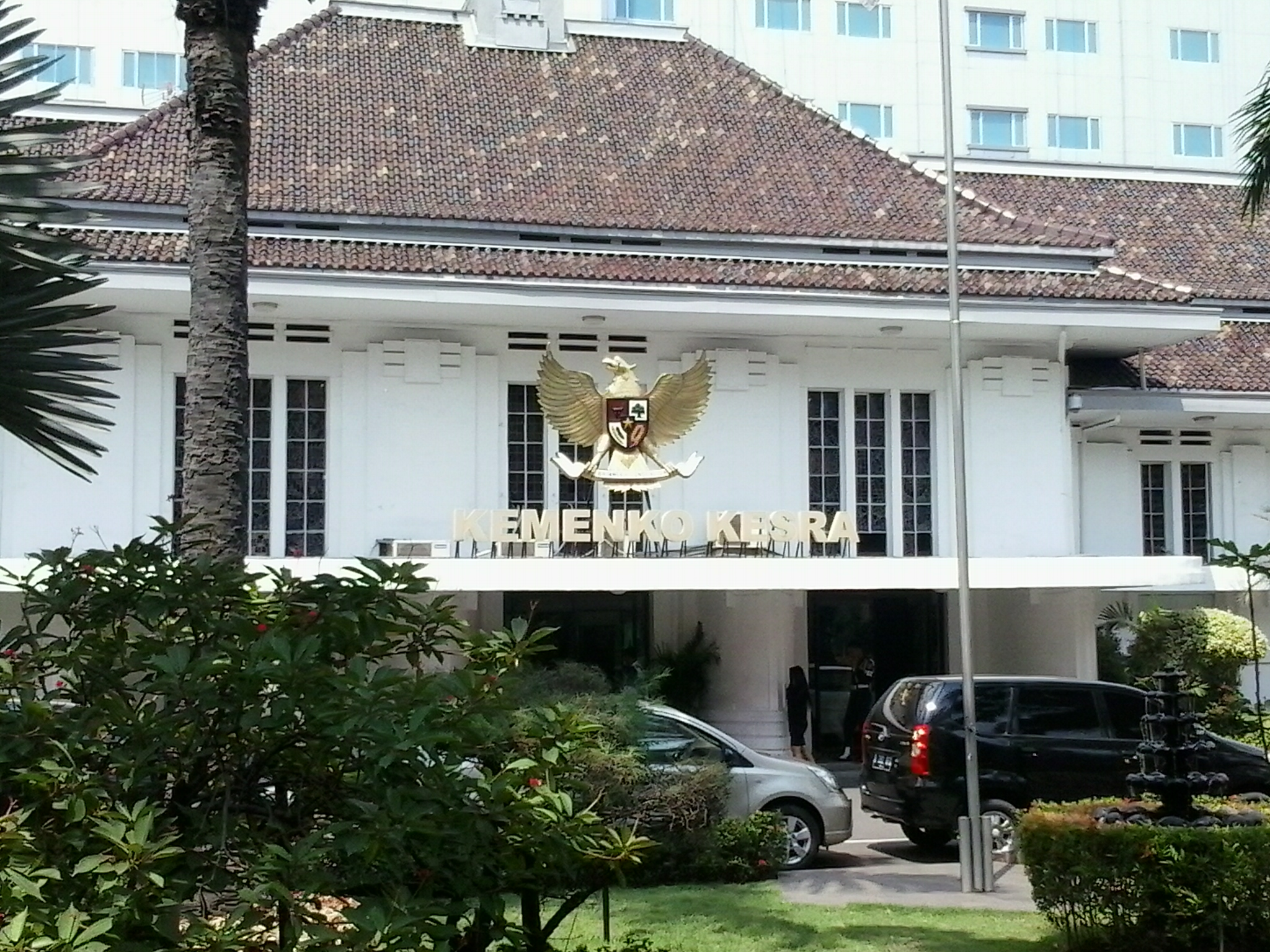 Office of the Coordinating Ministry for People's Welfare (Kemenko Kesra) Indonesia in Jalan Medan Merdeka Barat, Jakarta